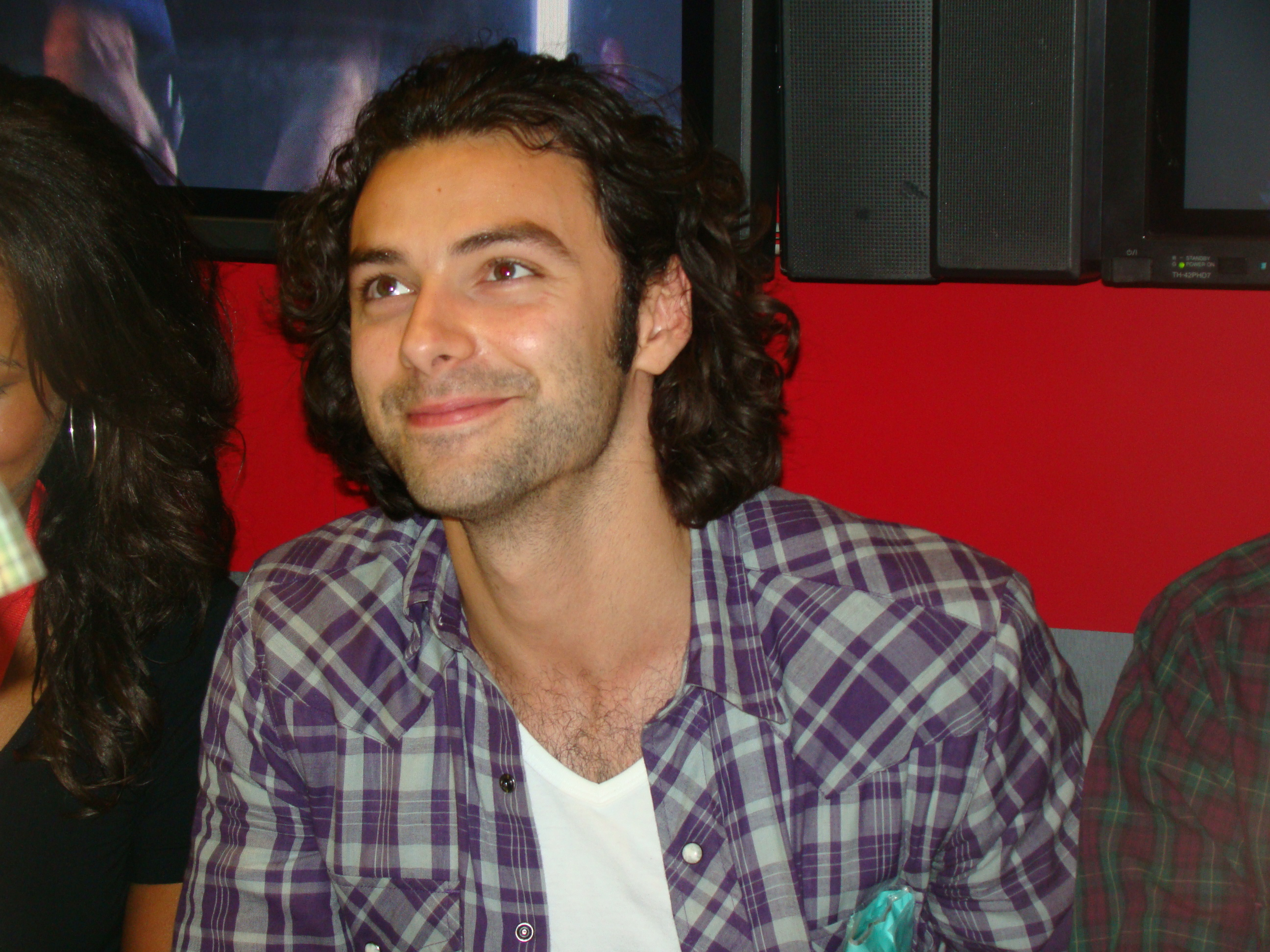 Aidan Turner, Being Human signings (Comic-Con San Diego, 2009)